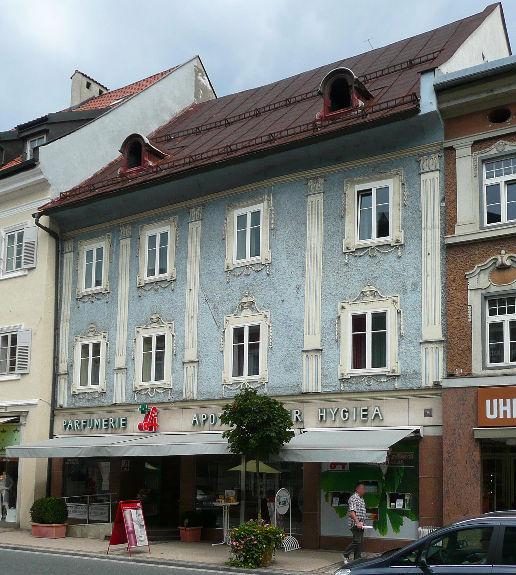 Buidling in Spittal an der Drau, Carinthia, Austria